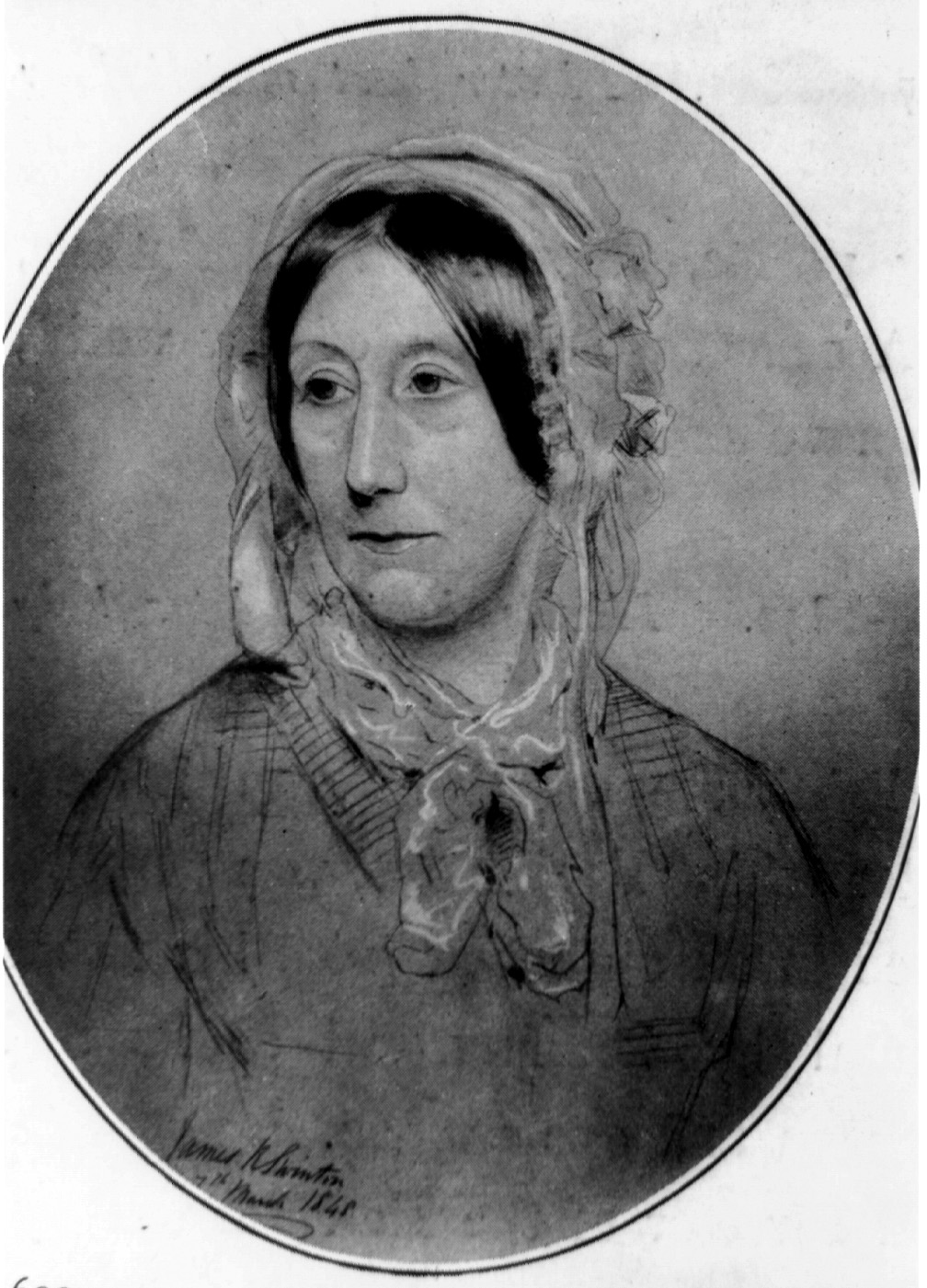 Mary Somerville, Scottish scientist and polymath. Reproduction of drawing. Illus. in: Cust, National Portrait Gallery (1902).